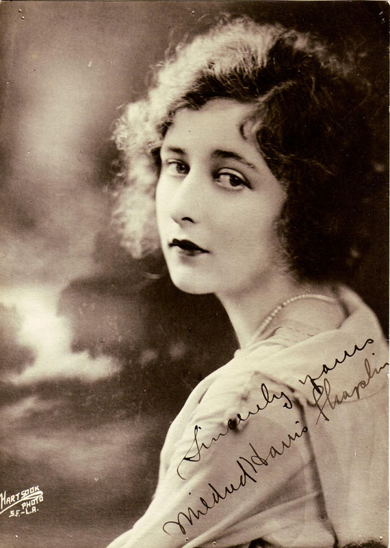 Mildred Harris ca 1918 - 1920. Publicity photo taken by Hartsook Photo, a now defunct chain of studios spread throughout California. Published and distributed.